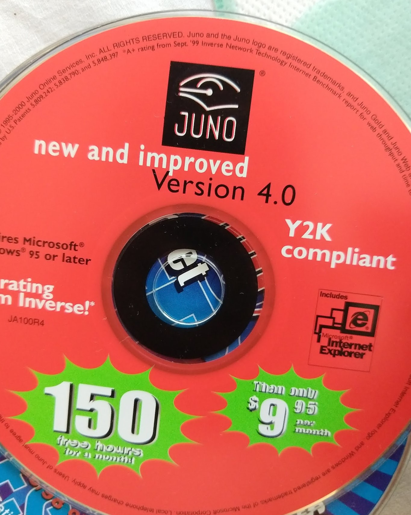 Juno Y2K CD for Internet Servce